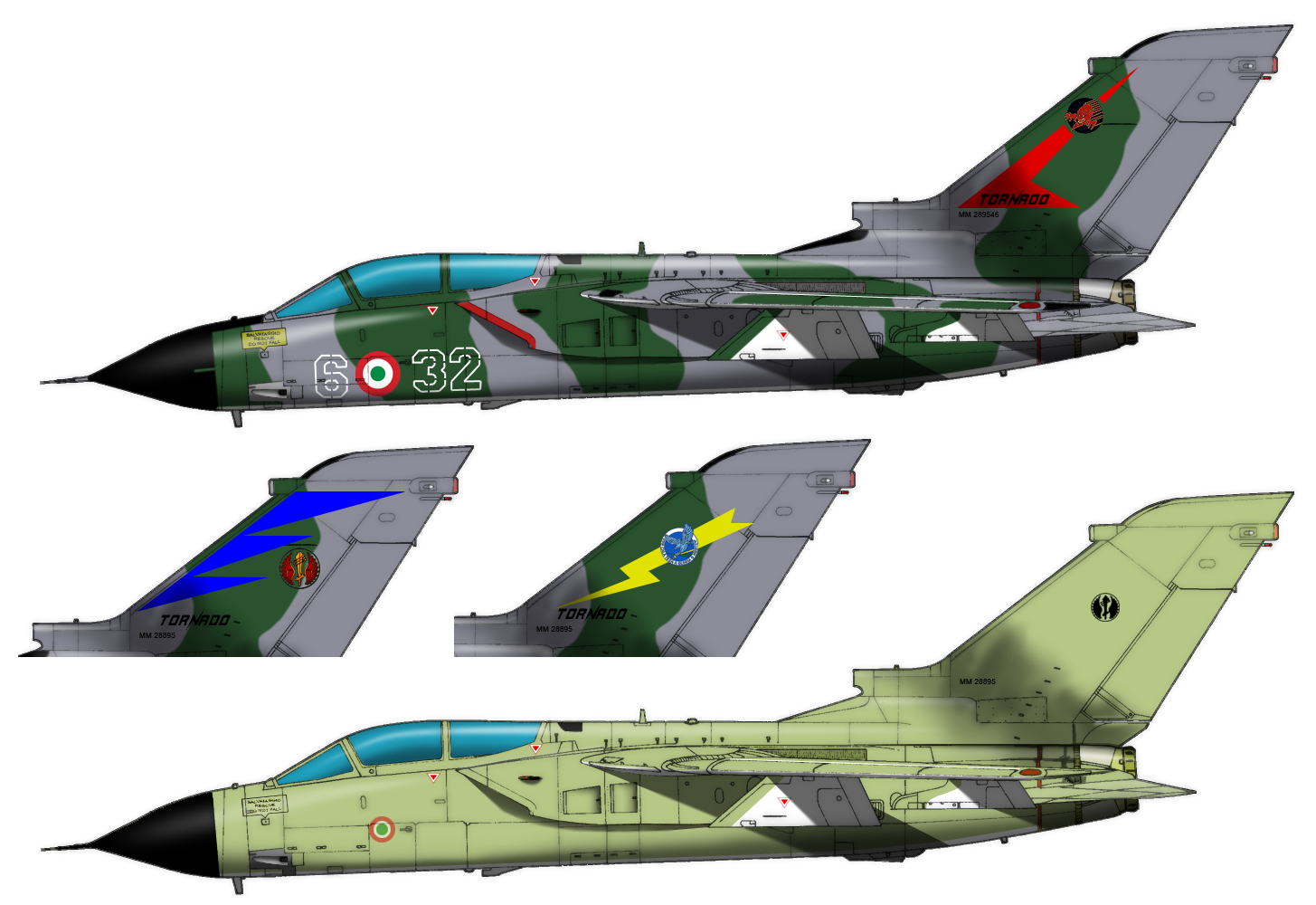 Some paint schemes of Italian Air Force Tornadoes